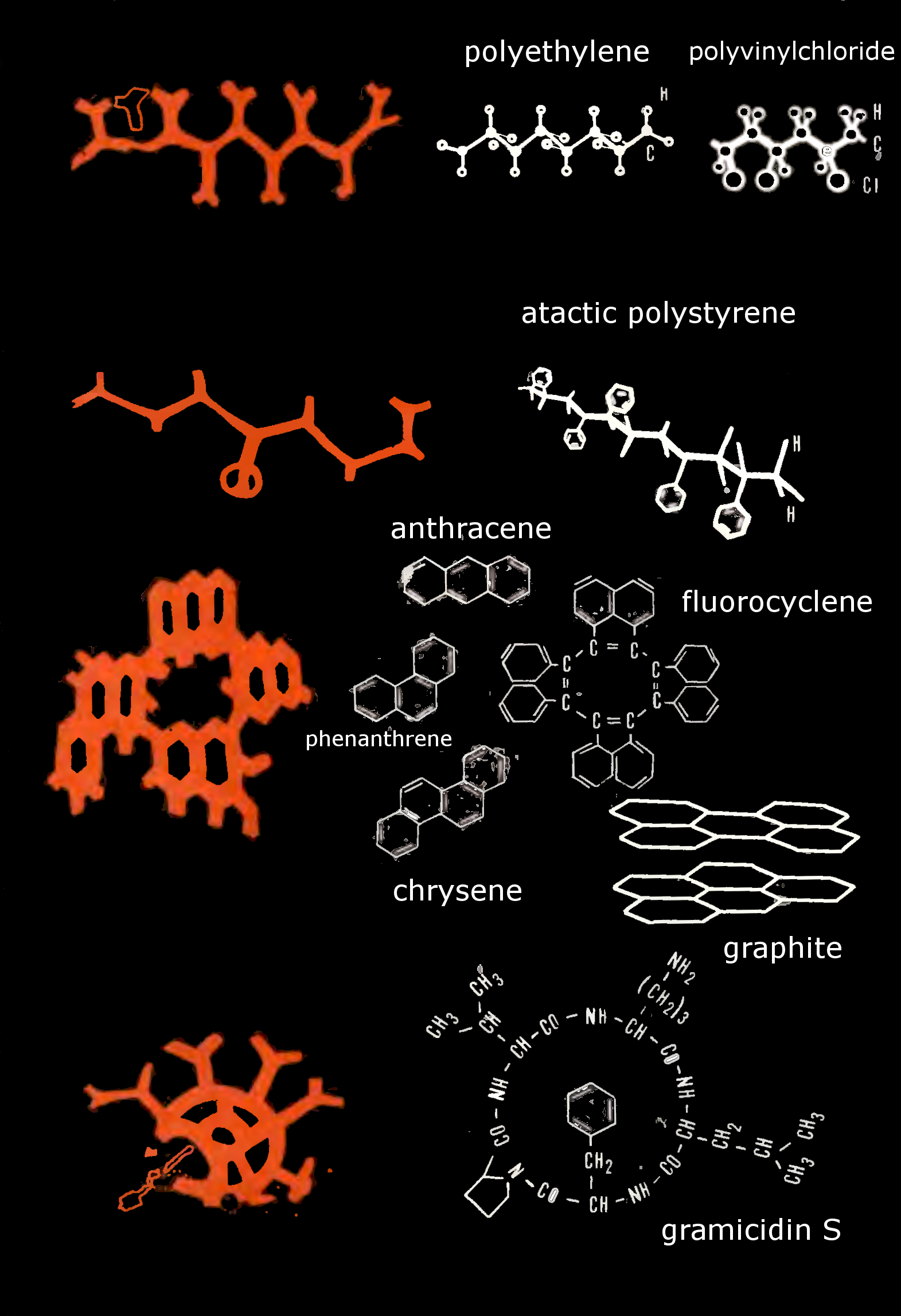 Some of the Ural pictograms (orange), compared to structural formulas of polyethylene, polyvinylchloride, atactic polystyrene, anthracene, phenanthrene, fluorocyclene, chrysene, graphite and gramicidin S. Based upon hypothesis of V. Avinsky, published in Khimiya i Zhizn, 9, 1974, p. 82